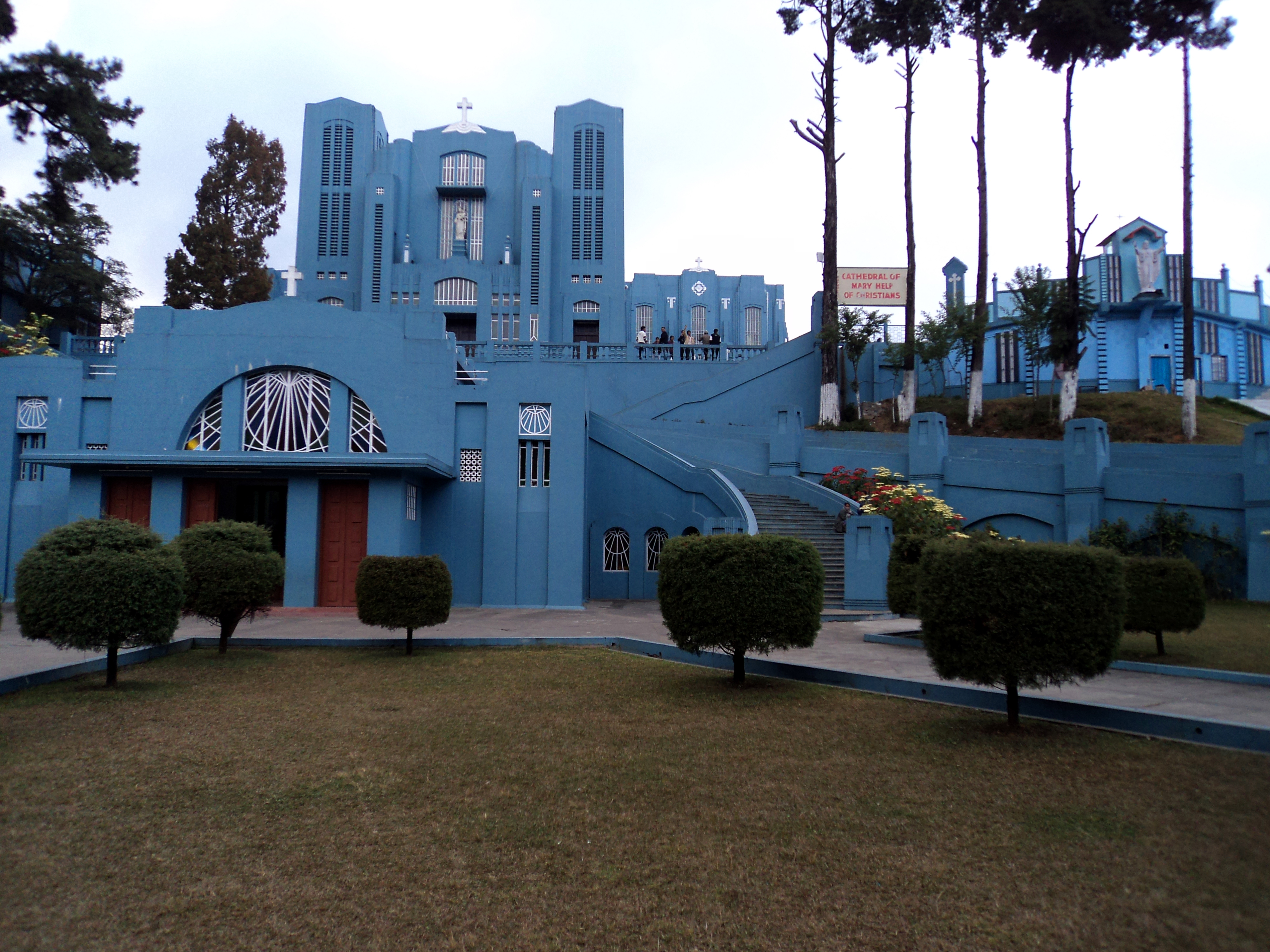 A church situated in Shillong, India. অসমীয়া: মেঘালয়ৰ ৰাজধানী শ্বিলংত অৱস্থিত এক গীৰ্জাঘৰ।